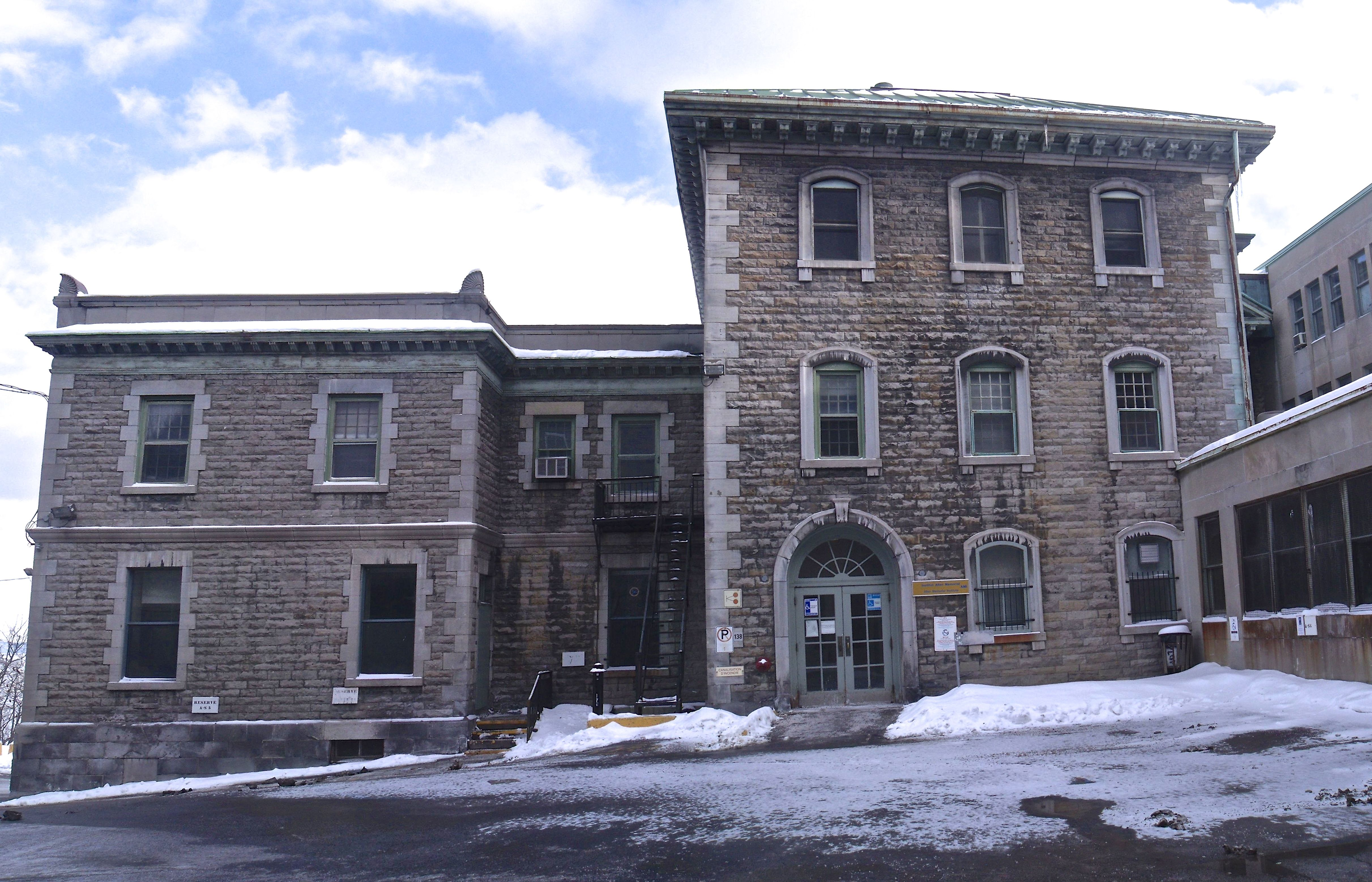 Servants' Quarters, Hugh Allan House, called Ravenscrag (1863), 835-1025 Pine Avenue West, Montreal, Quebec, Canada.